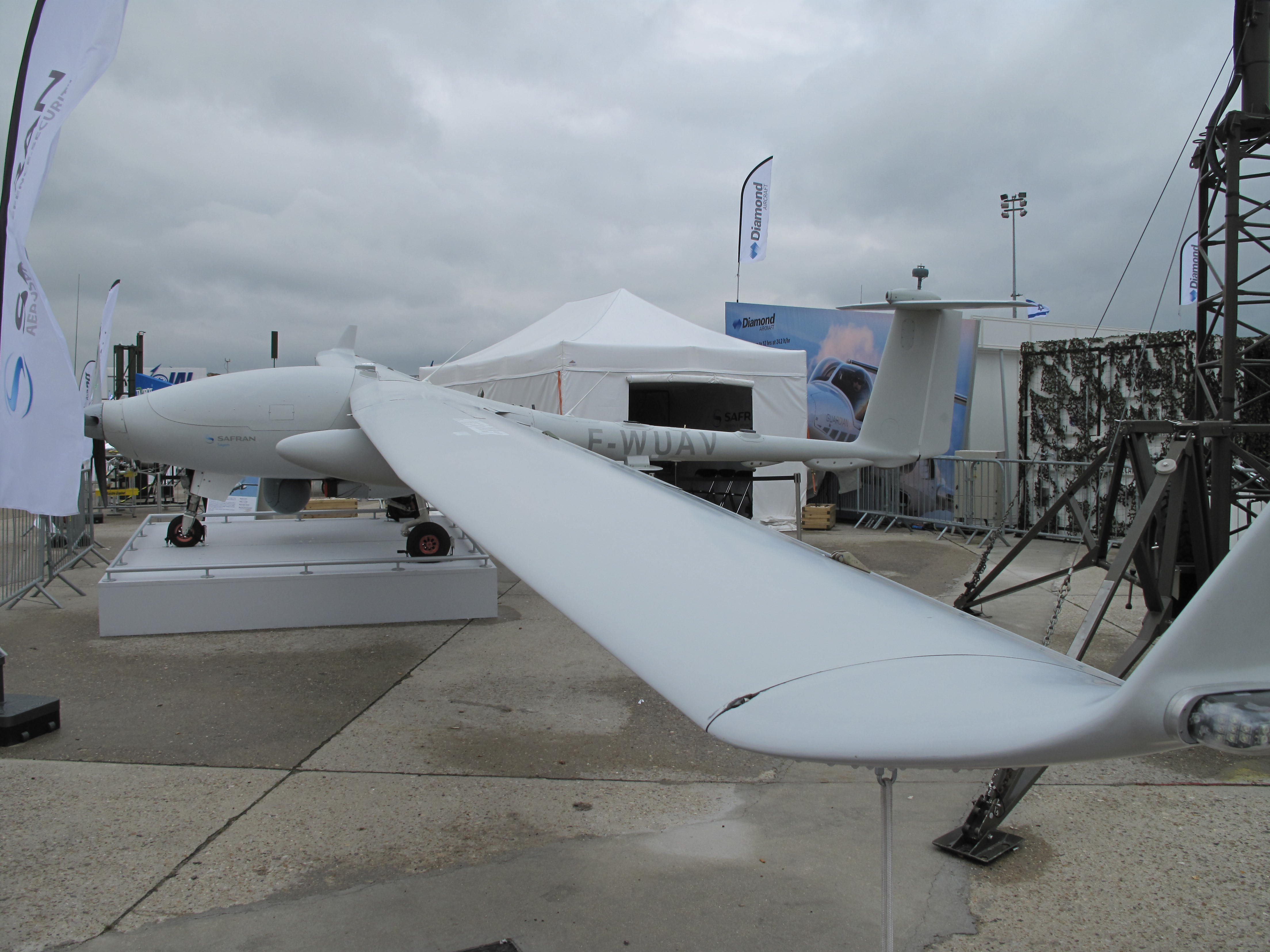 French UCAV Sagem Patroller at Paris Air Show 2013